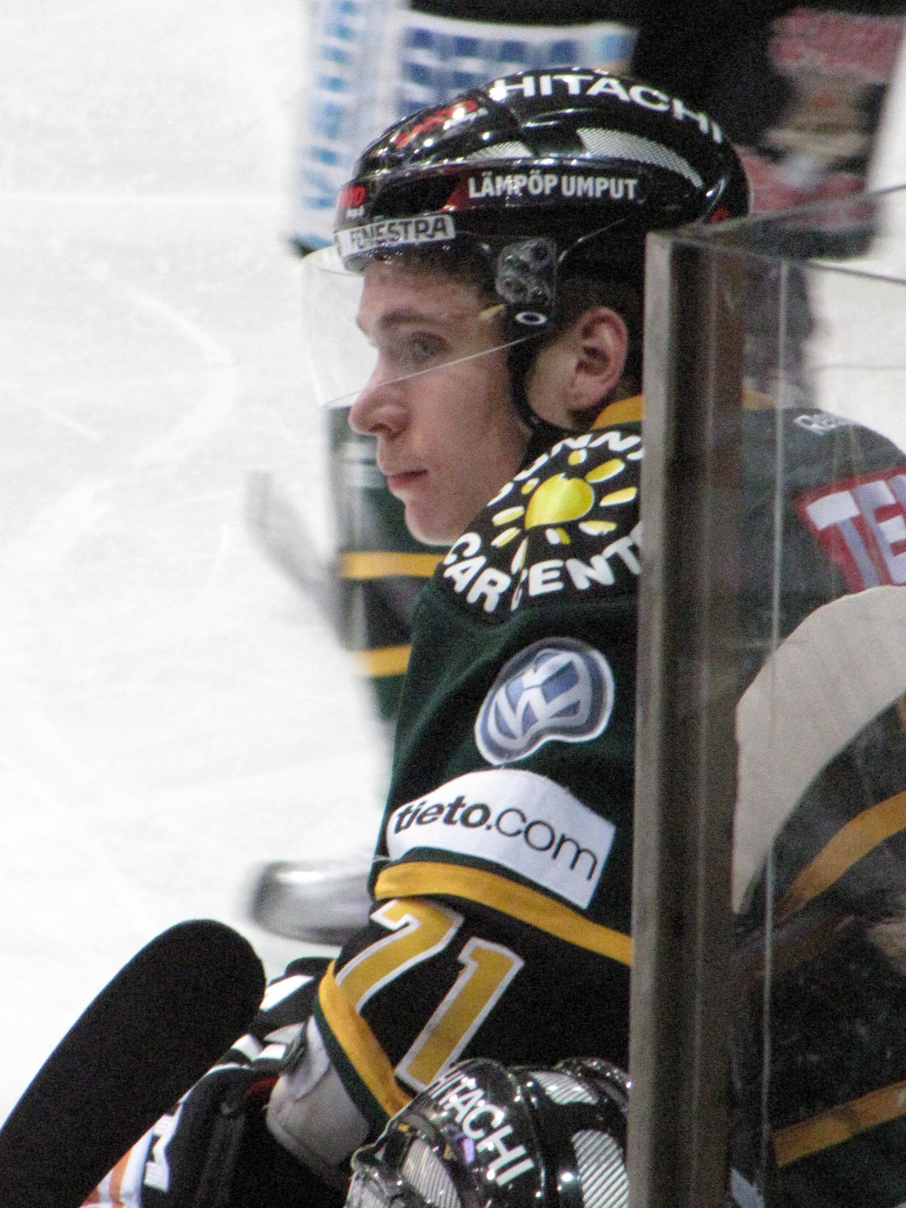 Finnish ice hockey forward Michael Keränen playing for Tampere Ilves in a Finnish SM-liiga relegation game in April, 2012.